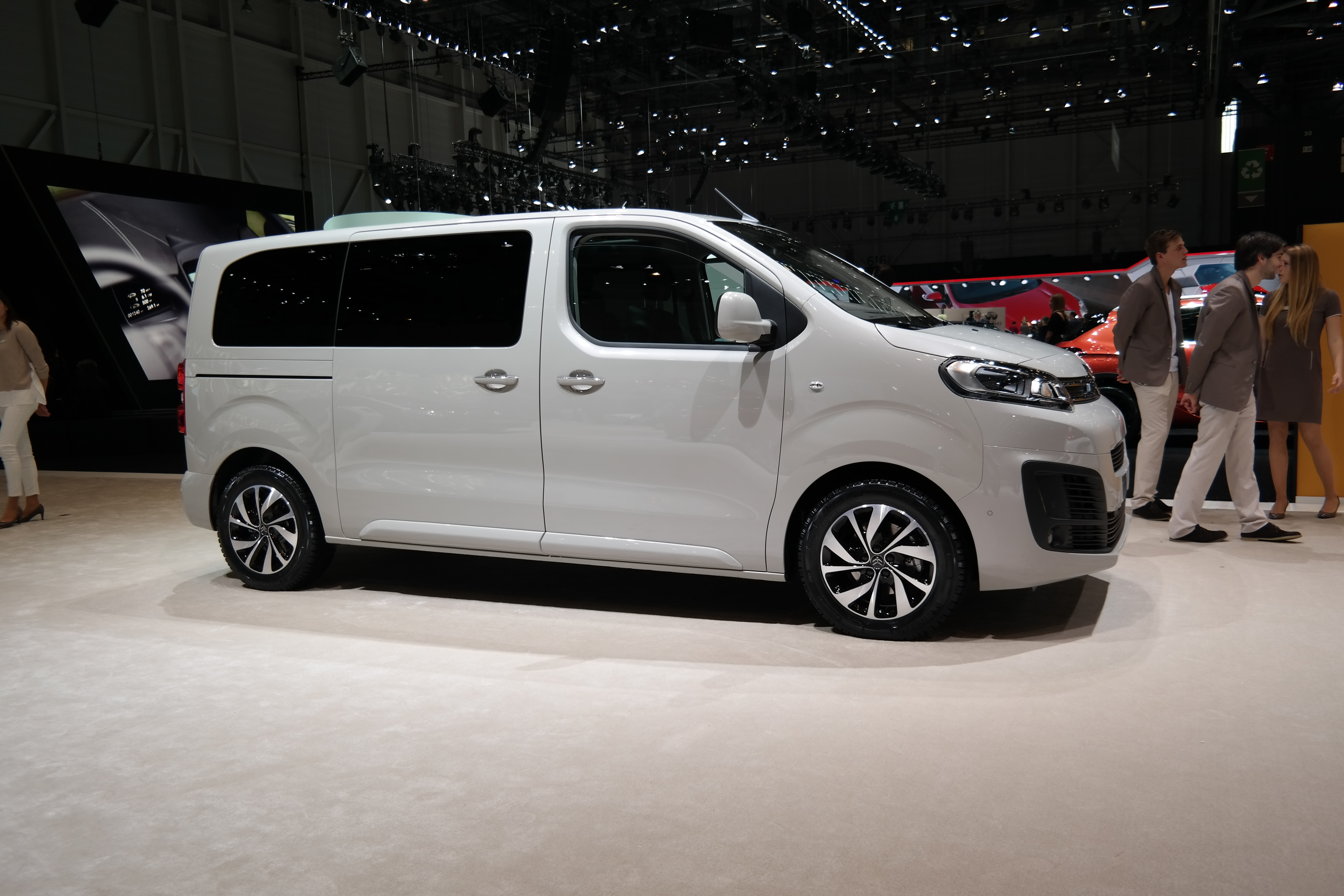 Geneva Motor Show 2016 (photo taken on the first press day)